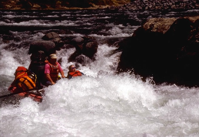 Rafters on the Illinois River in the Kalmiopsis Wilderness, part of the Rogue River-Siskiyou National Forest in southwest Oregon.